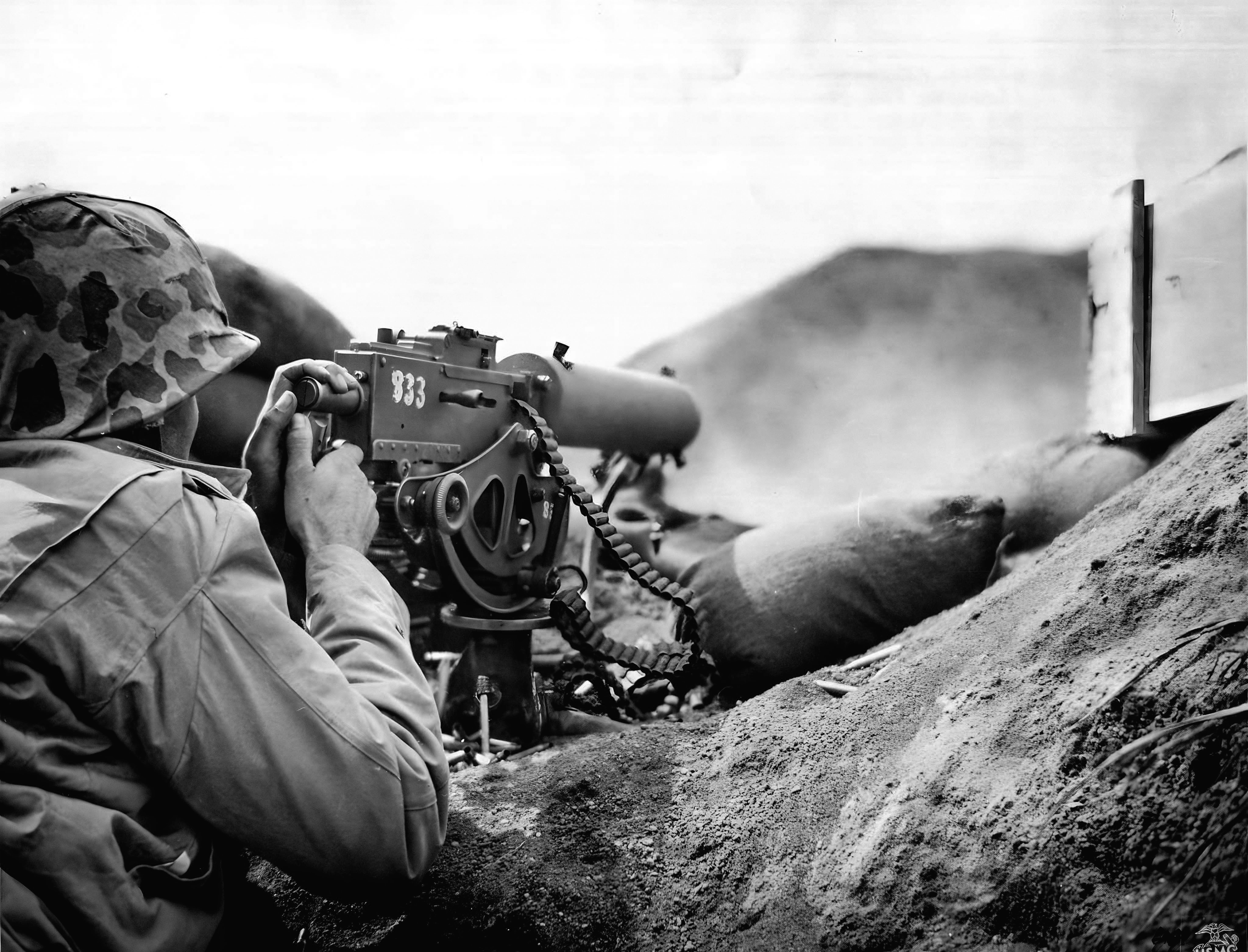 World War II, Iwo Jima Marine Machine Gun Team Fires on Japanese Positions HMG Browning M1917